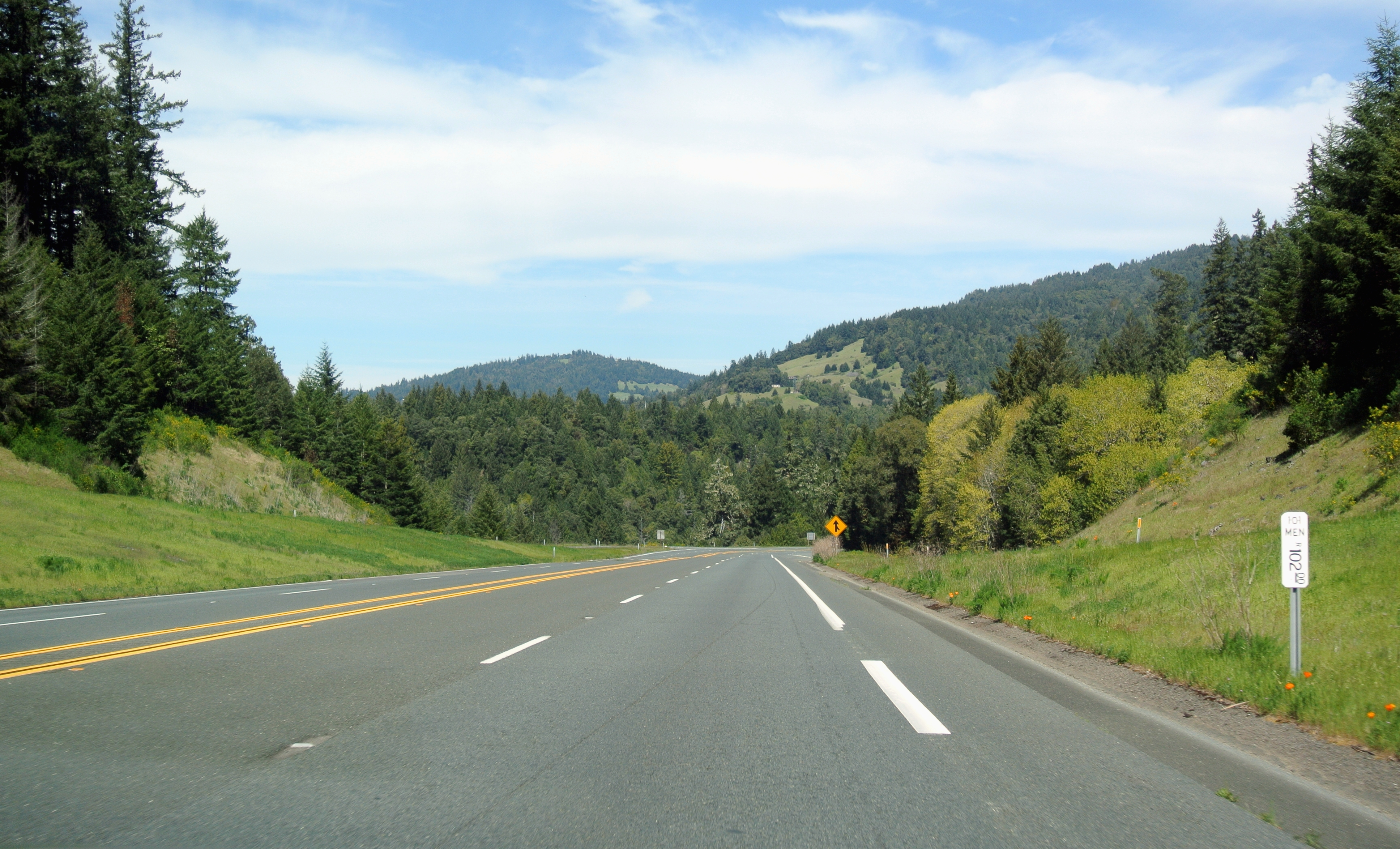 US 101 in the Mendocino County (Mile 102).